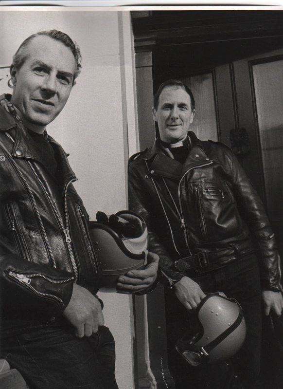 Father Bill Shergold and Father Graham Hullet